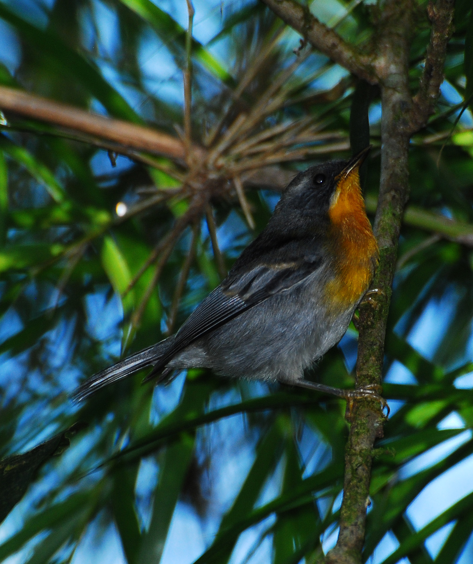 Flame-throated Warbler Oreothlypis gutturalis at Savegre Lodge, Costa Rica, 080228.